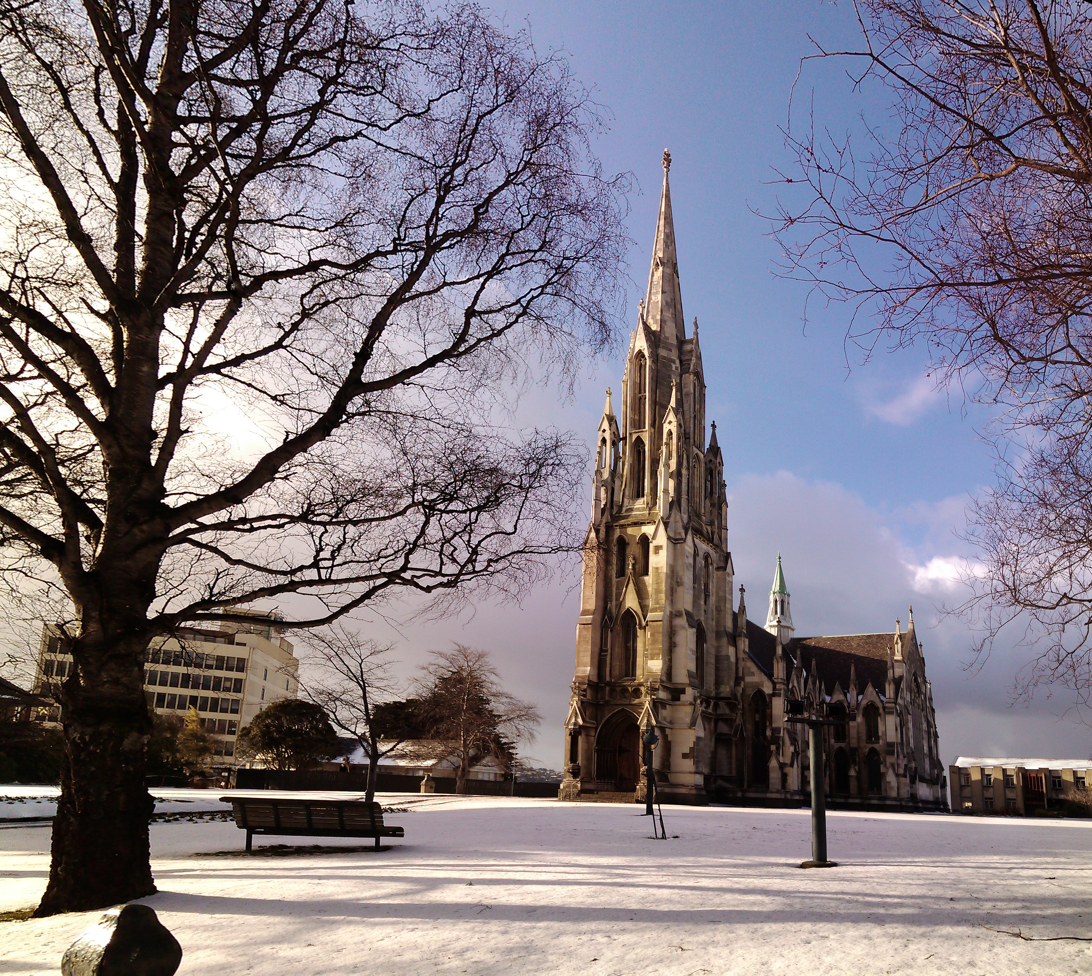 It snowed mid-August. Stopped me getting a plane, but I got this instead. Recomposited from several pics on my phone. Perspective is all my bad ... I should have shot more sky.